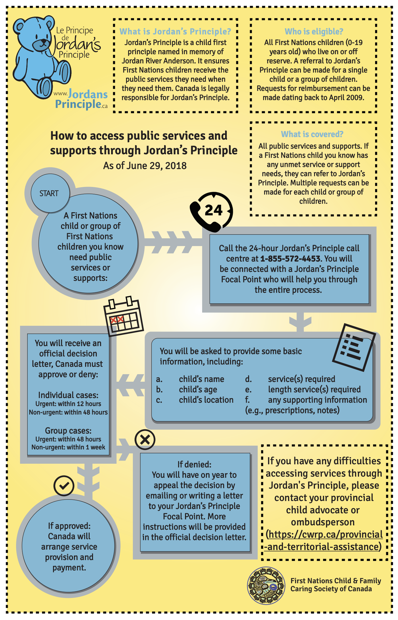 An information poster describing how to access public services and supports through Jordan's Principle.